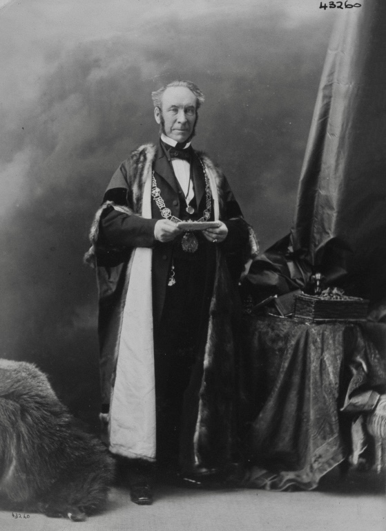 Photograph Mayor William Workman, Montreal, QC, 1869-70 William Notman (1826-1891) About 1869-1870, 19th century Silver salts on paper mounted on paper - Albumen process 14 x 10 cm Purchase from Associated Screen News Ltd. I-43260.1 © McCord Museum